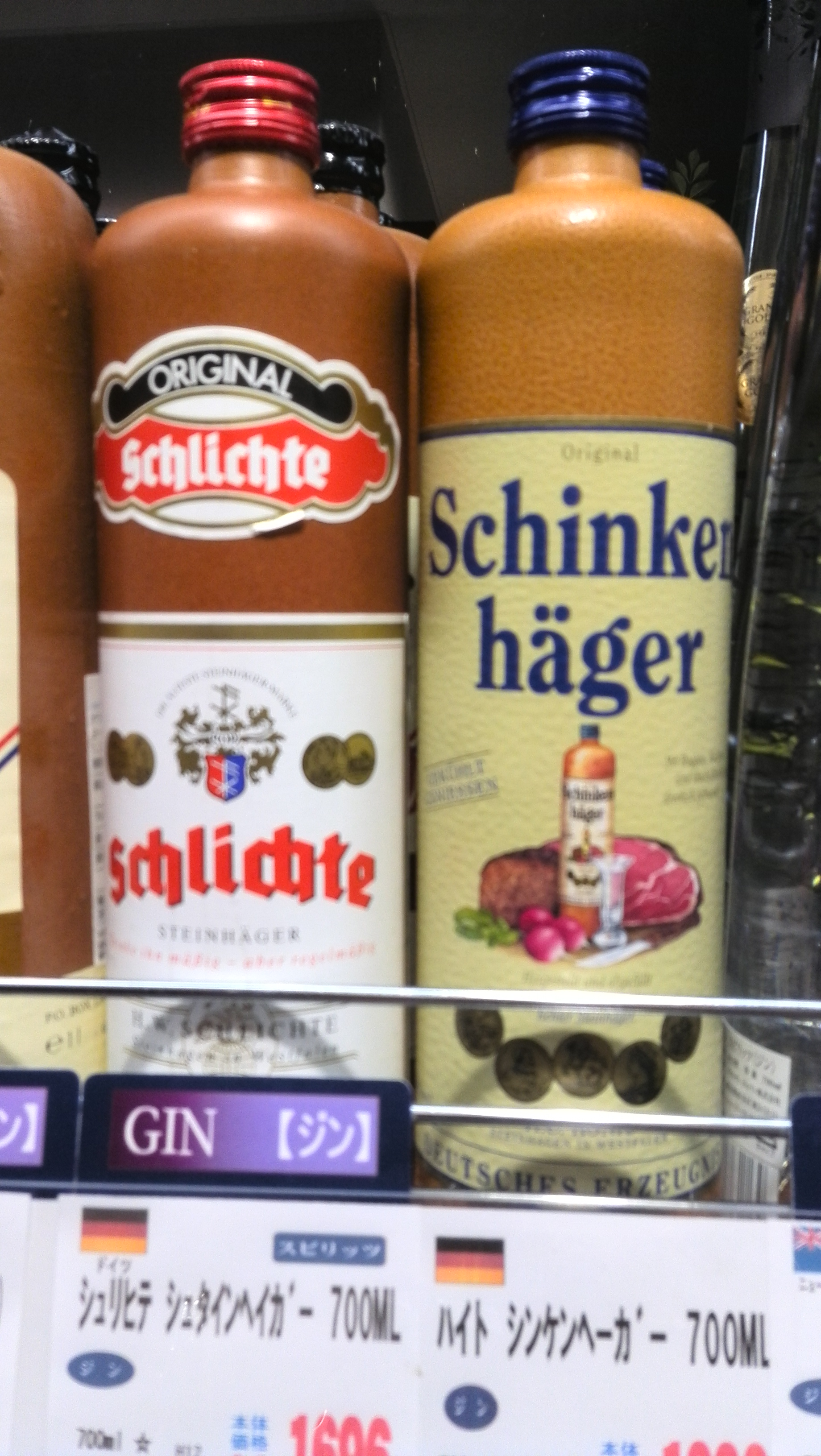 Schinkenhäger bottle in a supermarket in Kyoto, Japan.